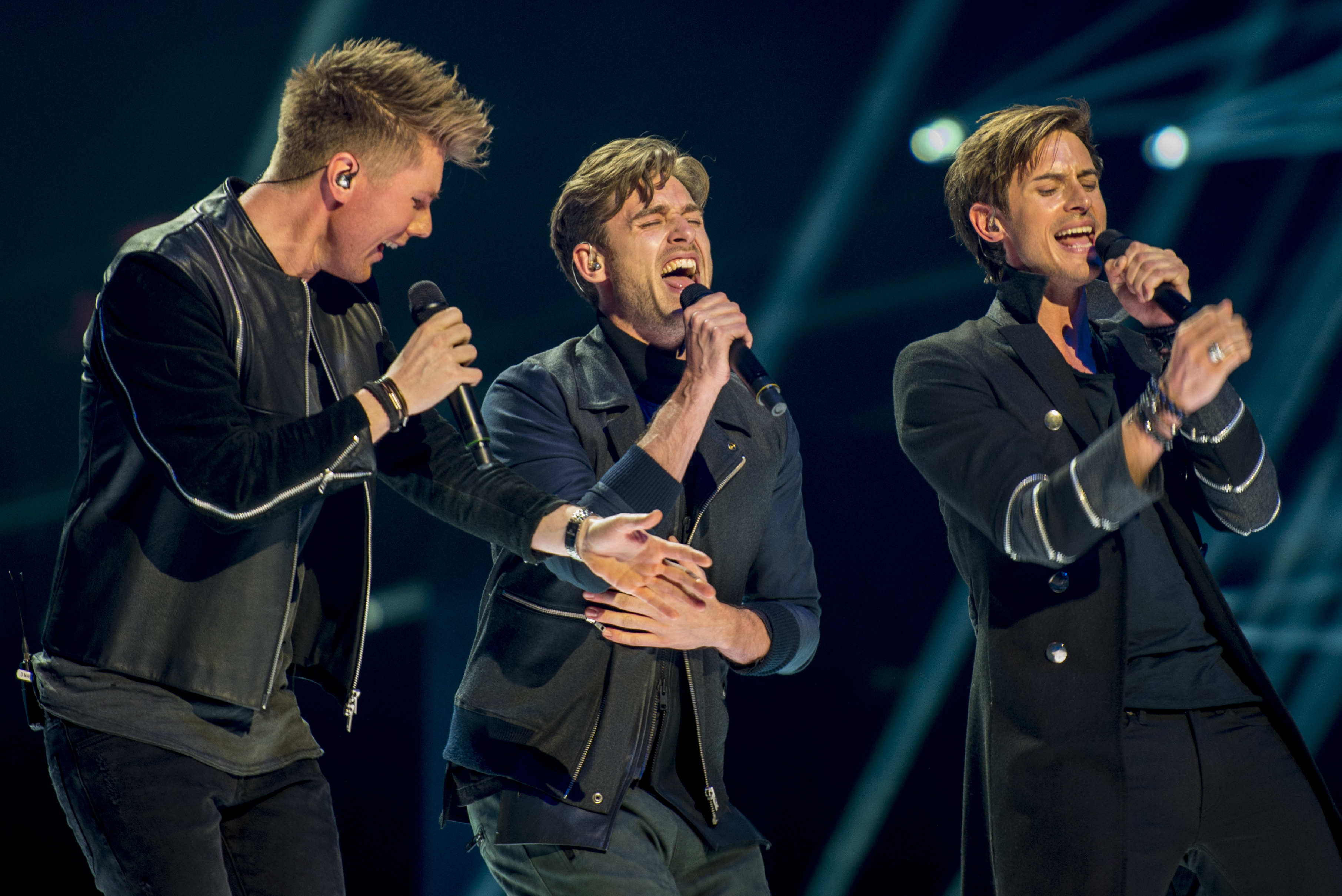 Lighthouse X representing Denmark with the song "Soldiers of Love" during a rehearsal before the second semi final of the Eurovision Song Contest 2016 in Stockholm. (Help translate this text)